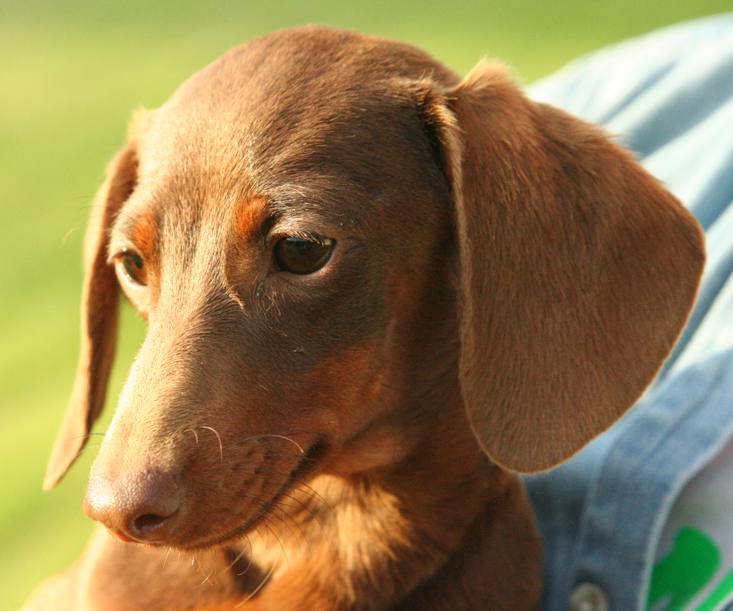 A smooth-coated red & tan Dachshund.